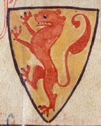 William II of Holland